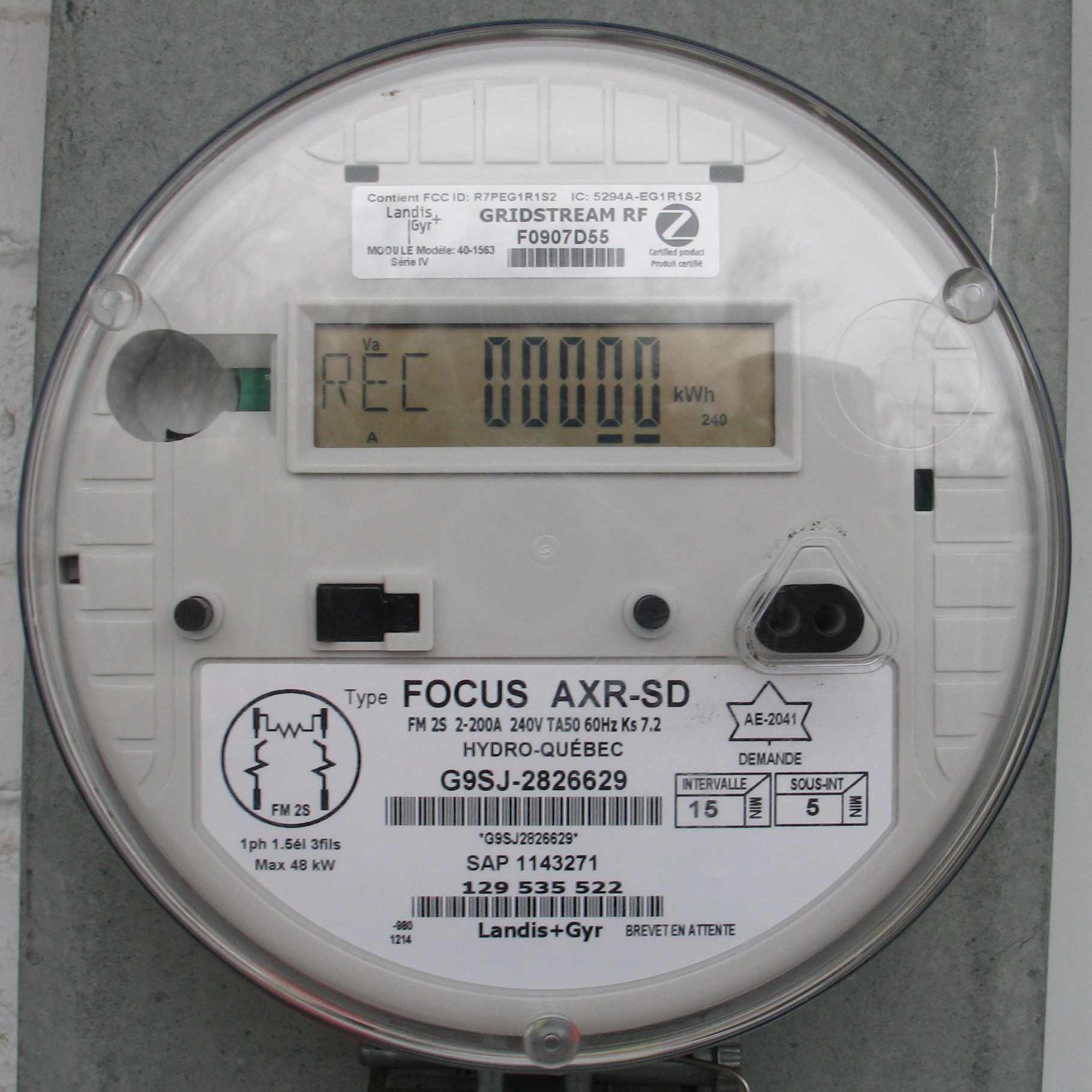 Landis+Gyr Focus AXR-SD smart meter installed between 2013 and 2015 at Hydro-Québec residential customers.